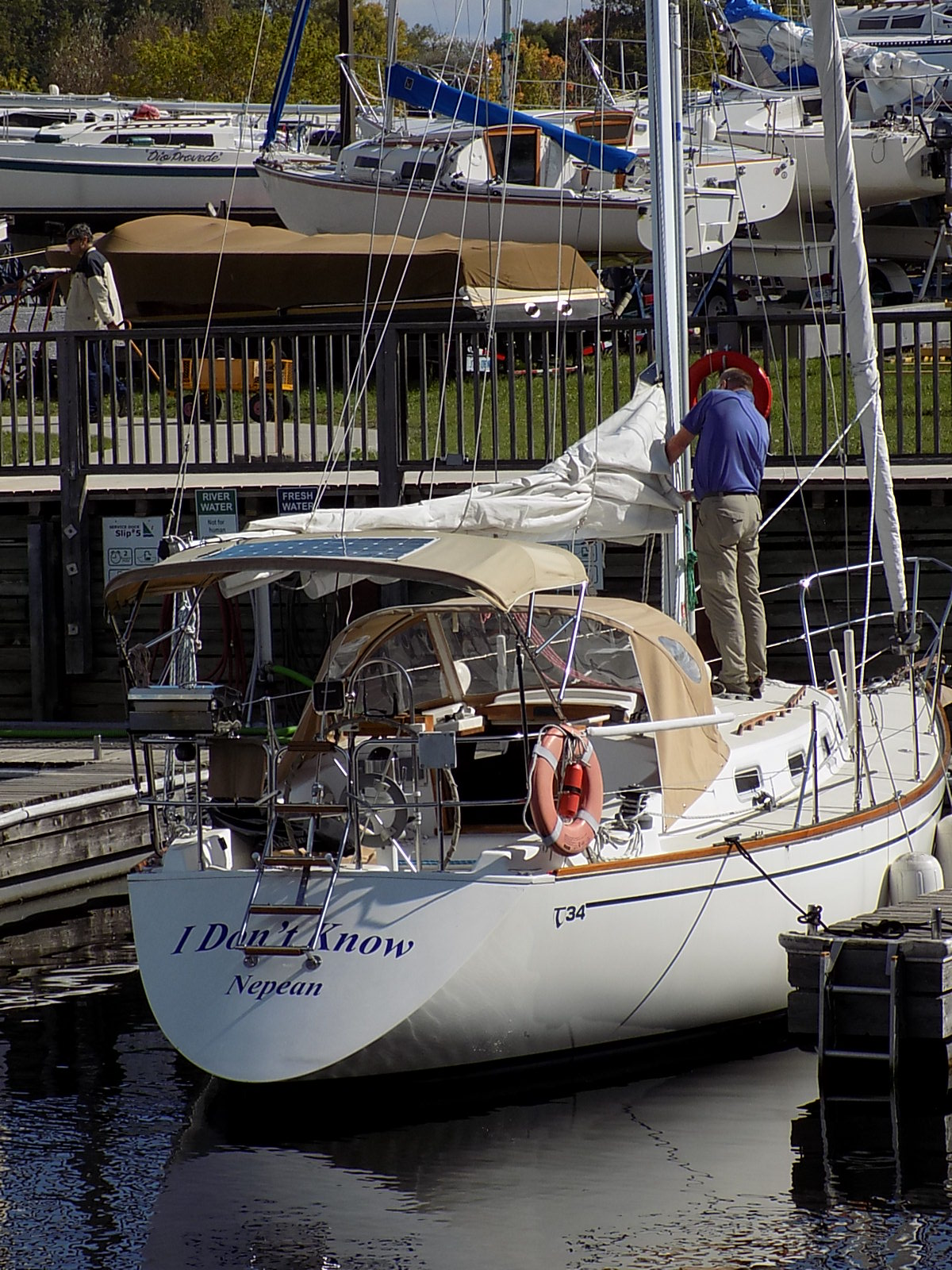 A Tartan 34-2 sailboat named I Don't Know.